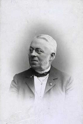 Danish publisher Gottlieb Ernst Clausen Gad (1830-1906)